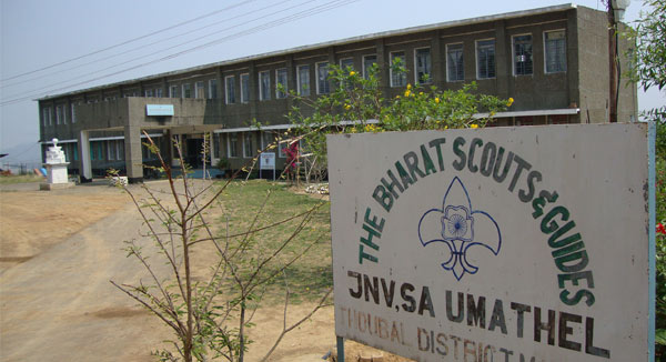 JNV Shandumba Achouba, Umathel